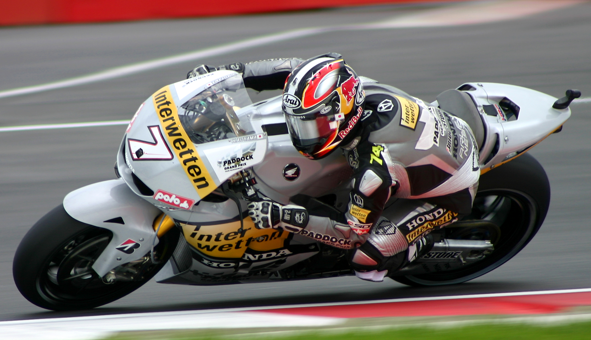 Hiroshi Aoyama at 2010 Silverstone